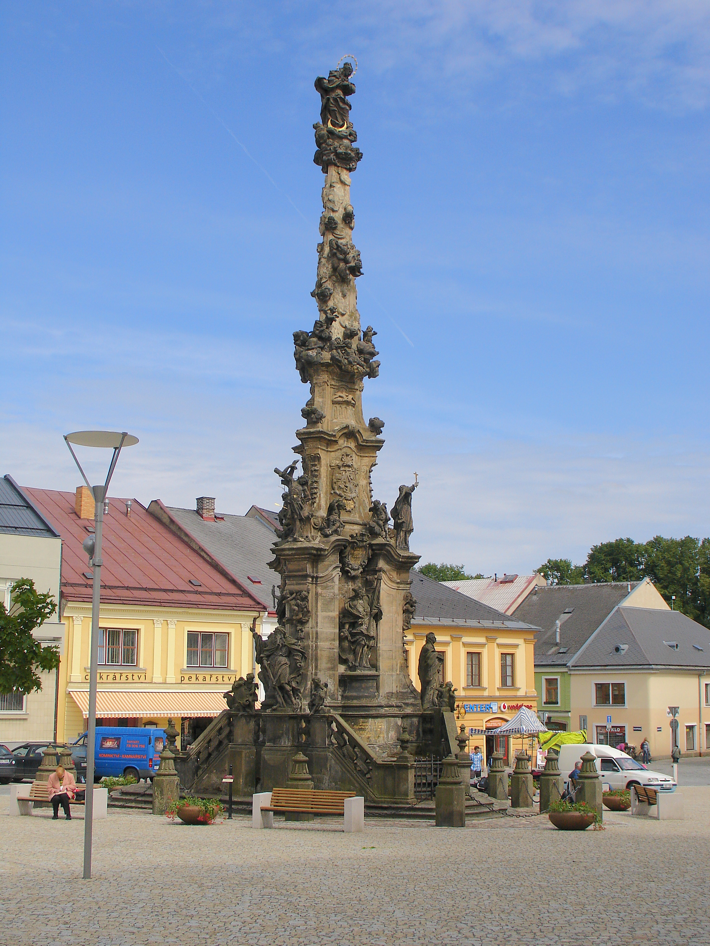 Polička, Svitavy District, Czech Republic: St. Mary's column